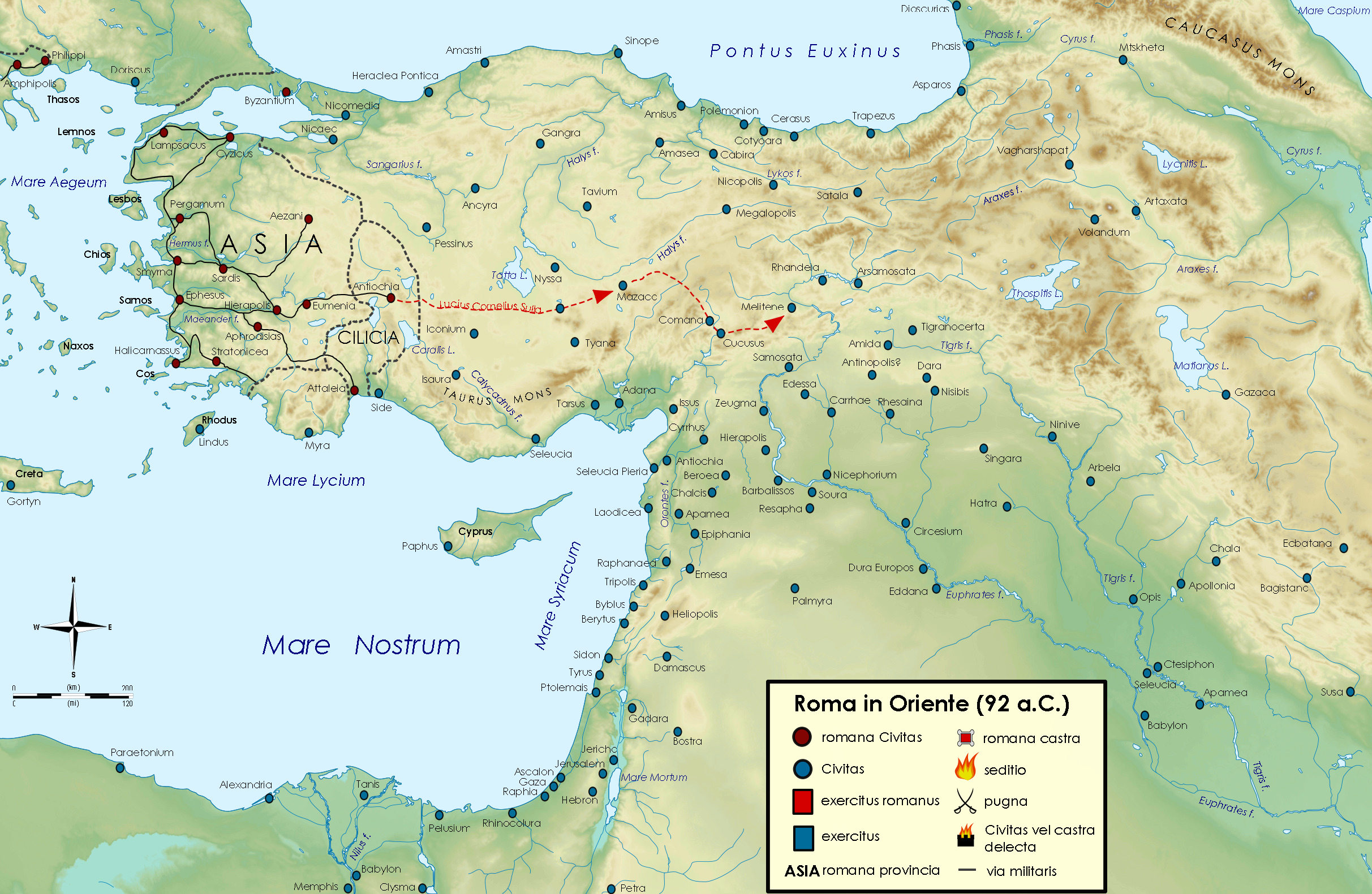 Roman republic in the Near East in 92 B.C., when L.Cornelius Sulla was praetor of Cilicia